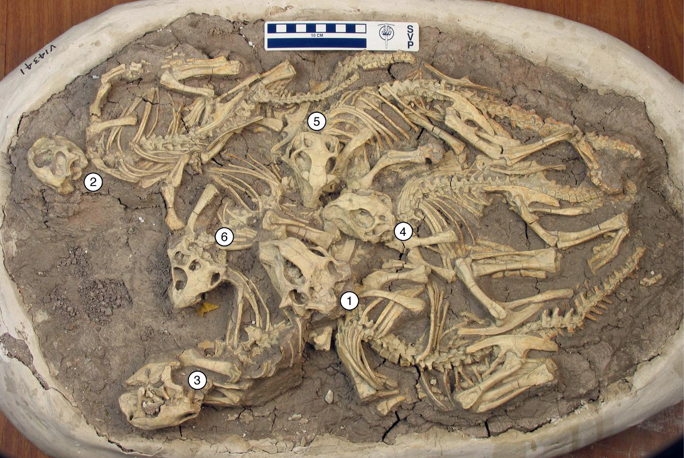 Cluster of six juvenile Psittacosaurus (IVPP V14341) from the Early Cretaceous of Lujiatun, Liaoning Province, China. The specimen, illustrated as a photograph, shows six aligned juvenile specimens, of which specimens 2-6 are estimated to have been two years old at death, and specimen 1 was three years old, based on bone histological analysis.